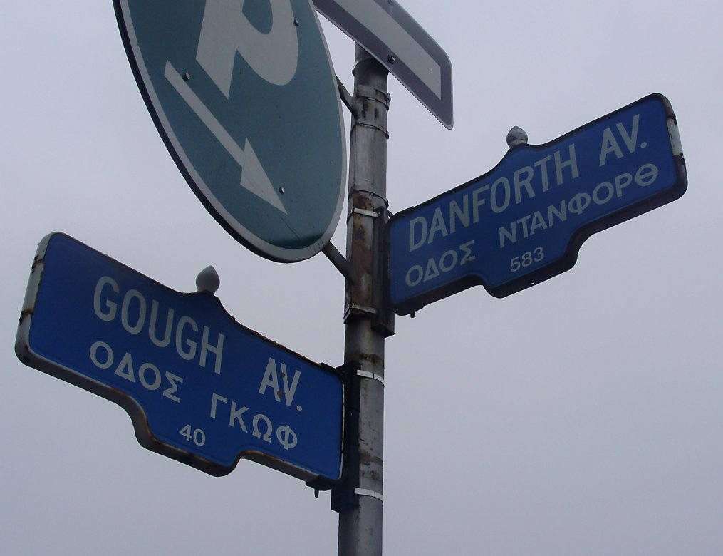 Bilingual English/Greek street signs for Danforth Avenue and Gough Avenue in Toronto's Greektown neighborhood.